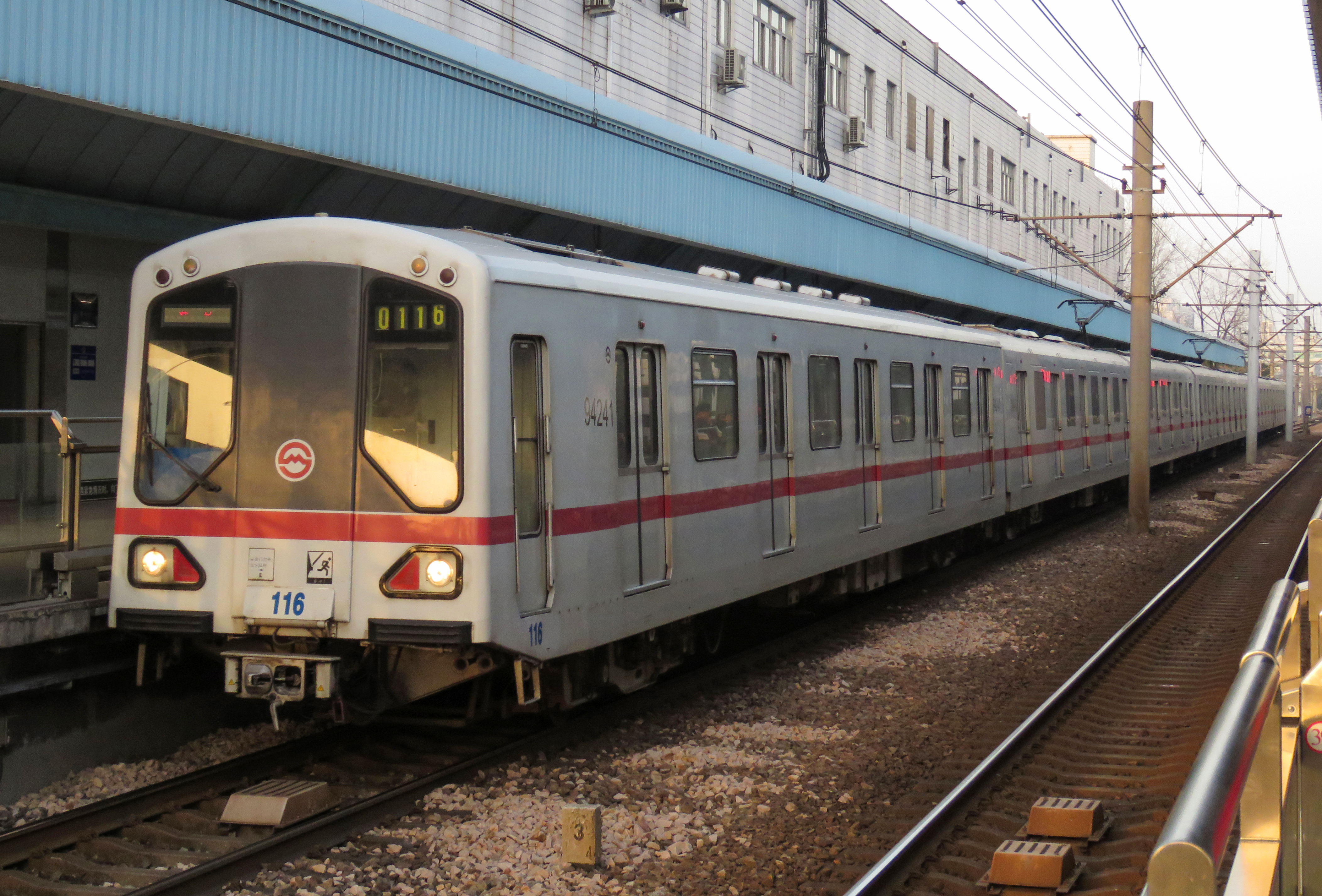 Finally made it to this sacred place of spotting. Wait a minute, should we just abbreviate this station as LHR? Nay, this will cause confusion.